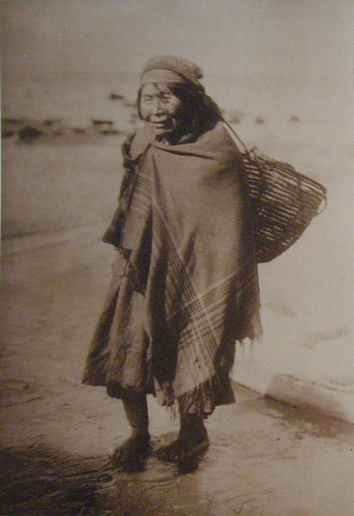 "The Makah Basket-Carrier".